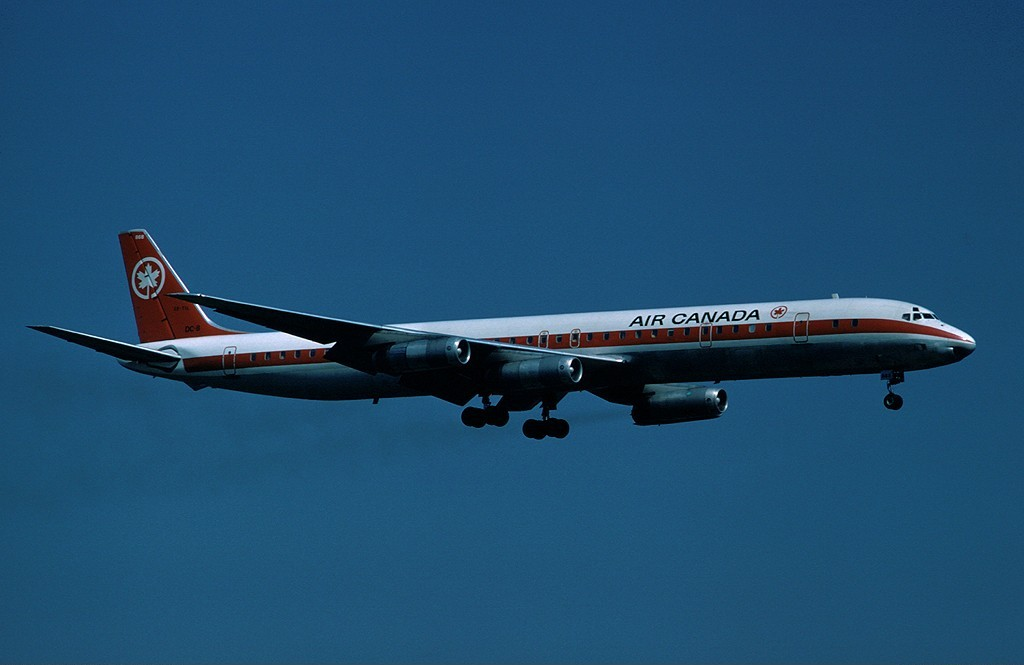 Air Canada Douglas DC-8-63 CF-TIL at Zurich International Airport